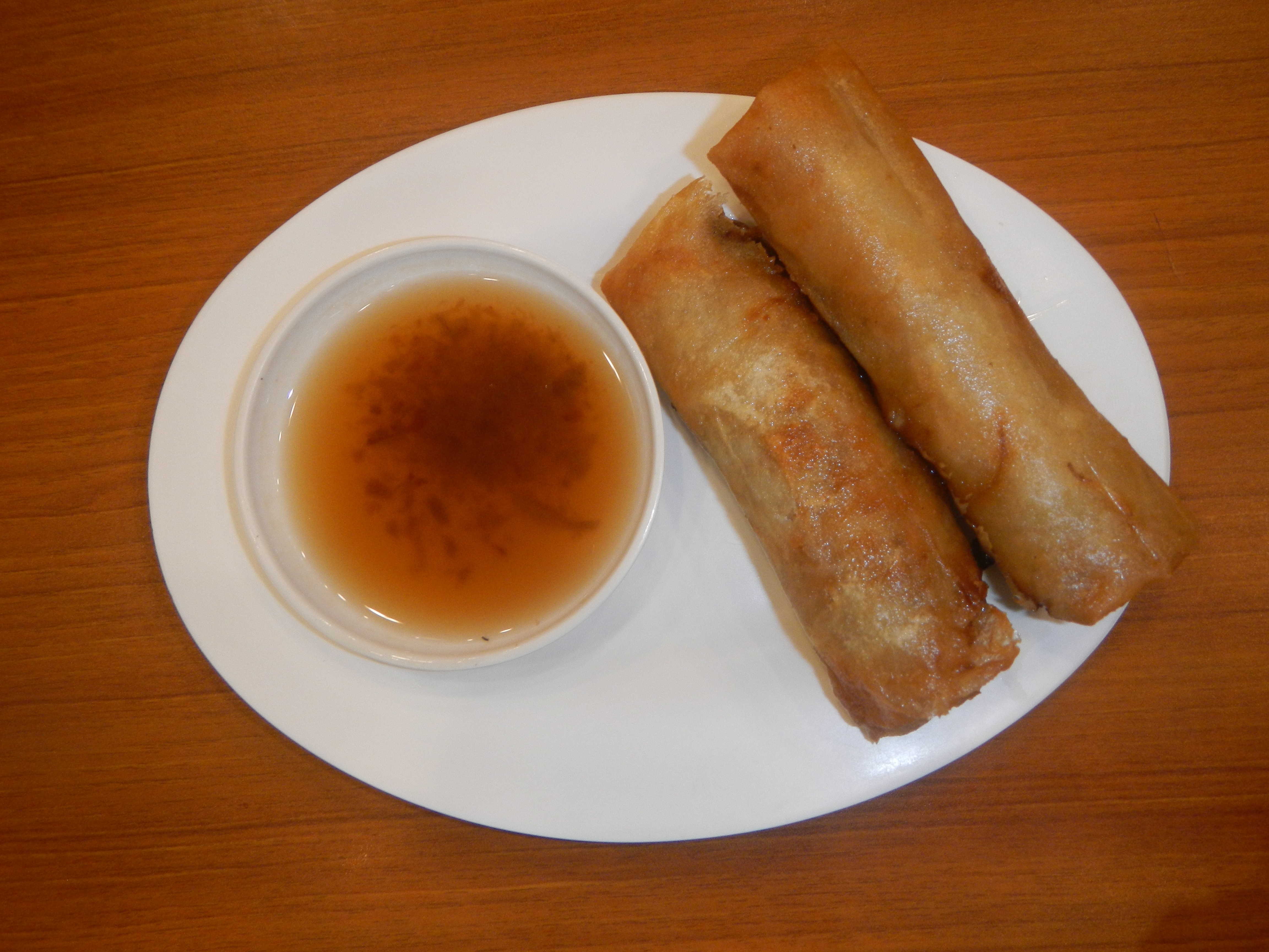 Tofu, Kenny Rogers Roasters and Lumpia (Note: Judge Florentino Floro, the owner, to repeat, Donor Florentino Floro of all these photos hereby donate gratuitously, freely and unconditionally all these photos to and for Wikimedia Commons, exclusively, for public use of the public domain, and again without any condition whatsoever).